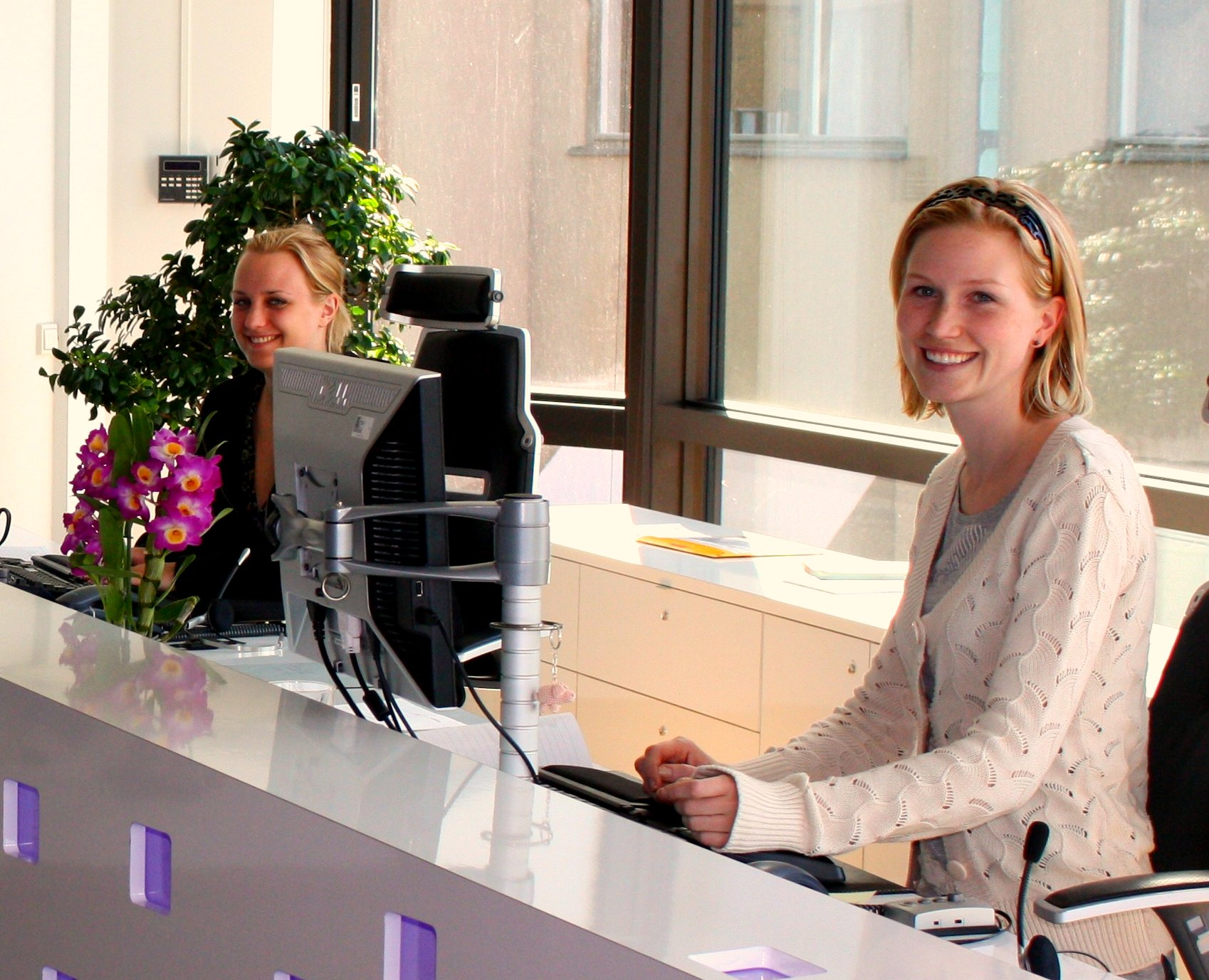 Nice Reception people at DICE in Stockholm